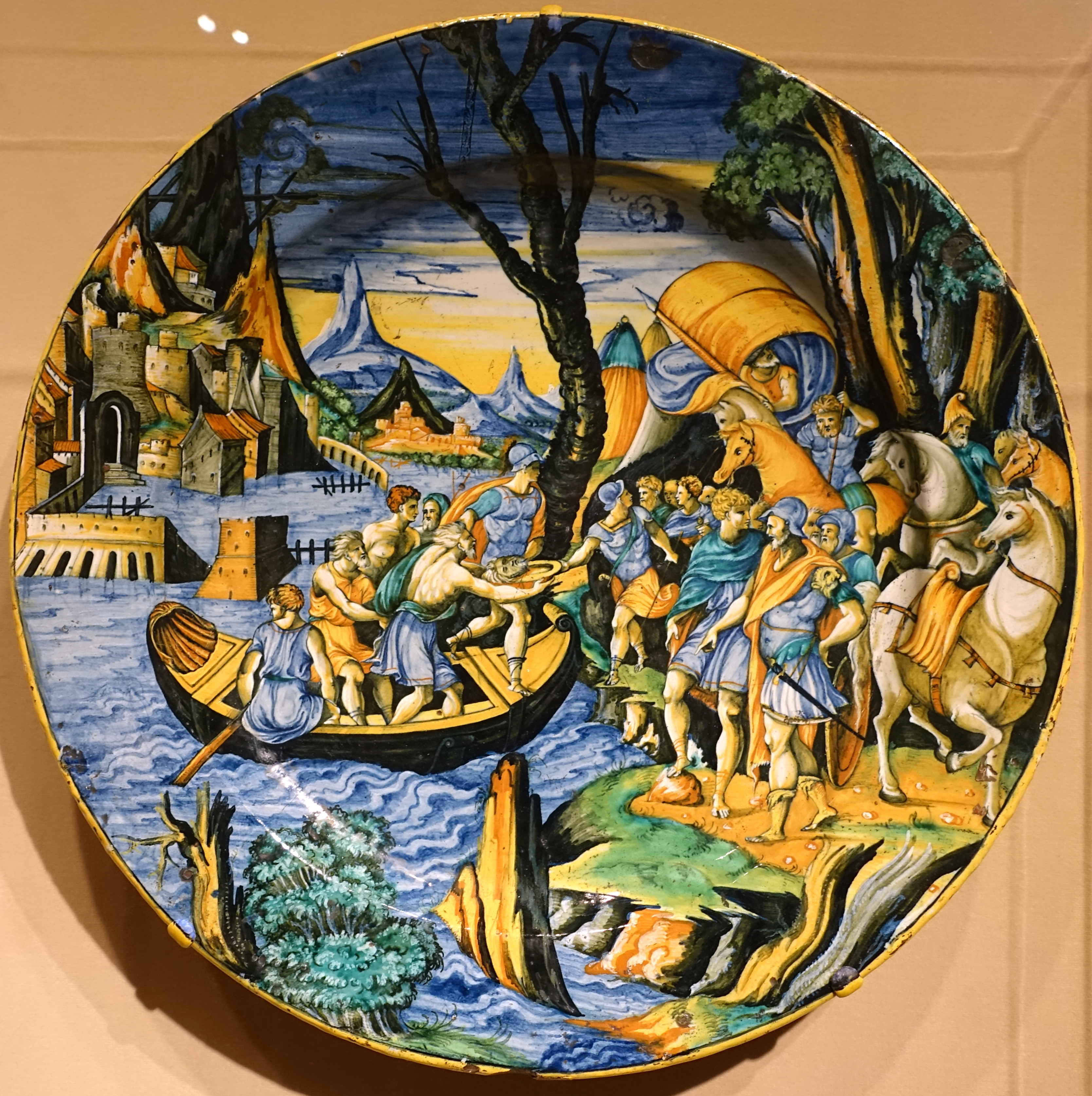 Exhibit in the Princeton University Art Museum - Princeton University, Princeton, New Jersey, USA.